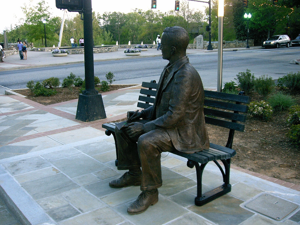 Charles Hard Townes statue facing Falls Park on the Reedy River